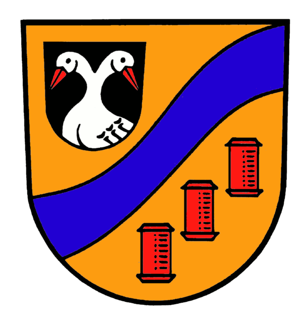 Coat of Arms of Glattbach